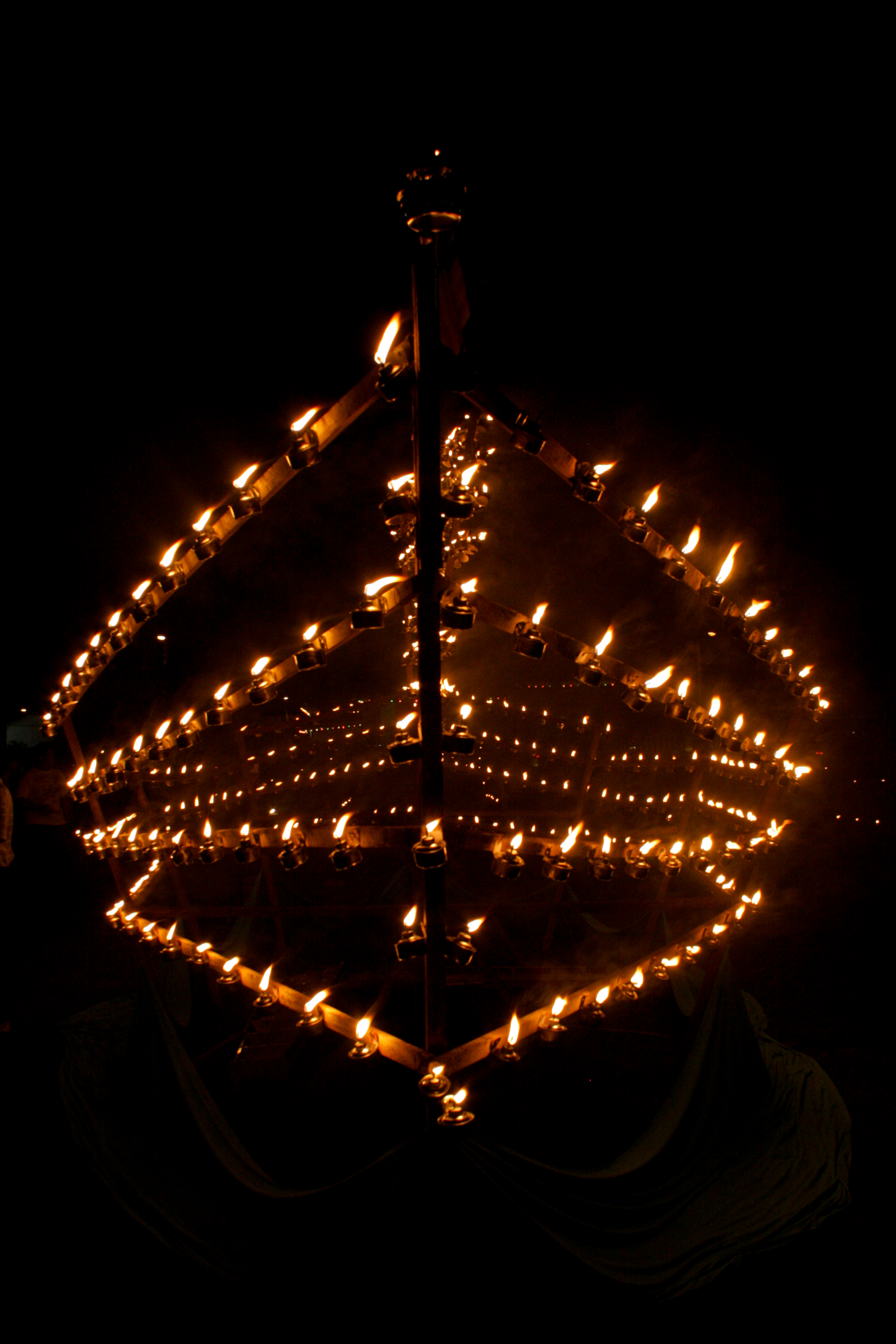 Pelita during Hari Raya celebration in Malaysia.